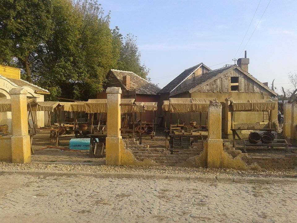 Market on the set of "Shadow over Balkans" in Baranda.